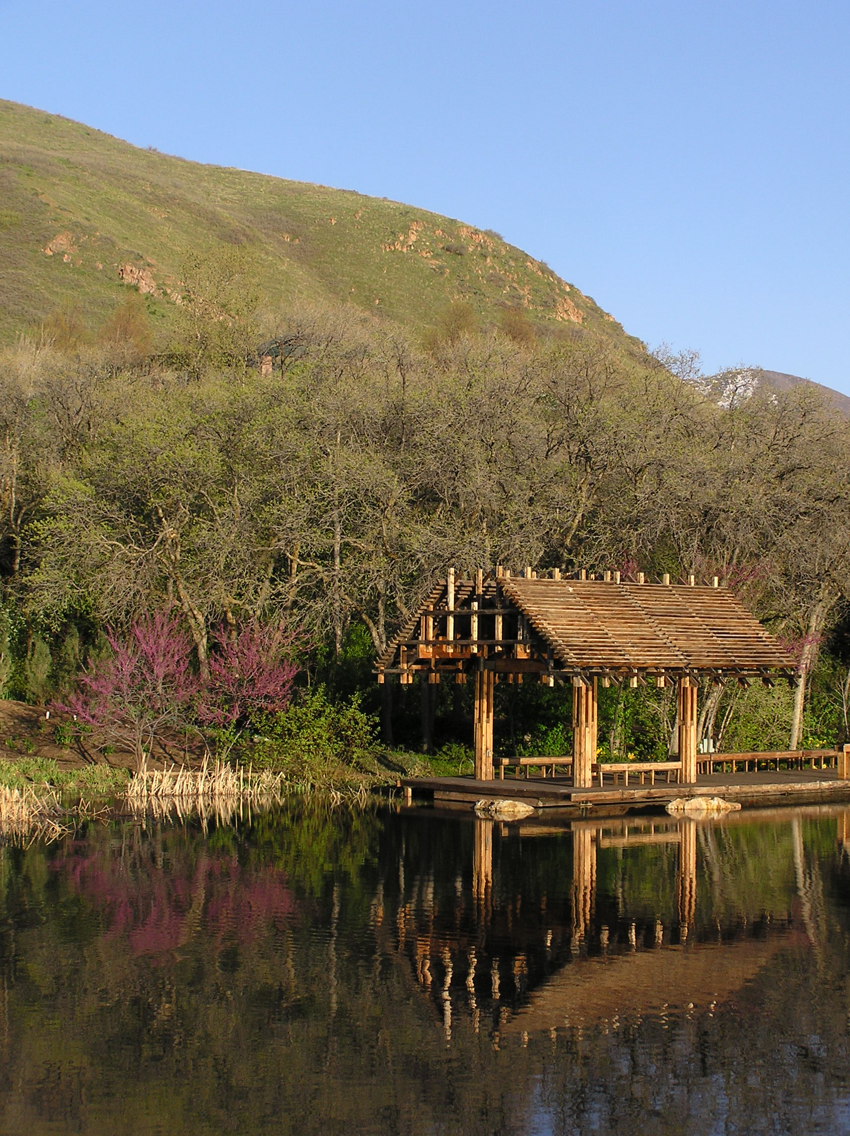 Lagoon at Red Butte Garden, Salt Lake City, Utah, USA